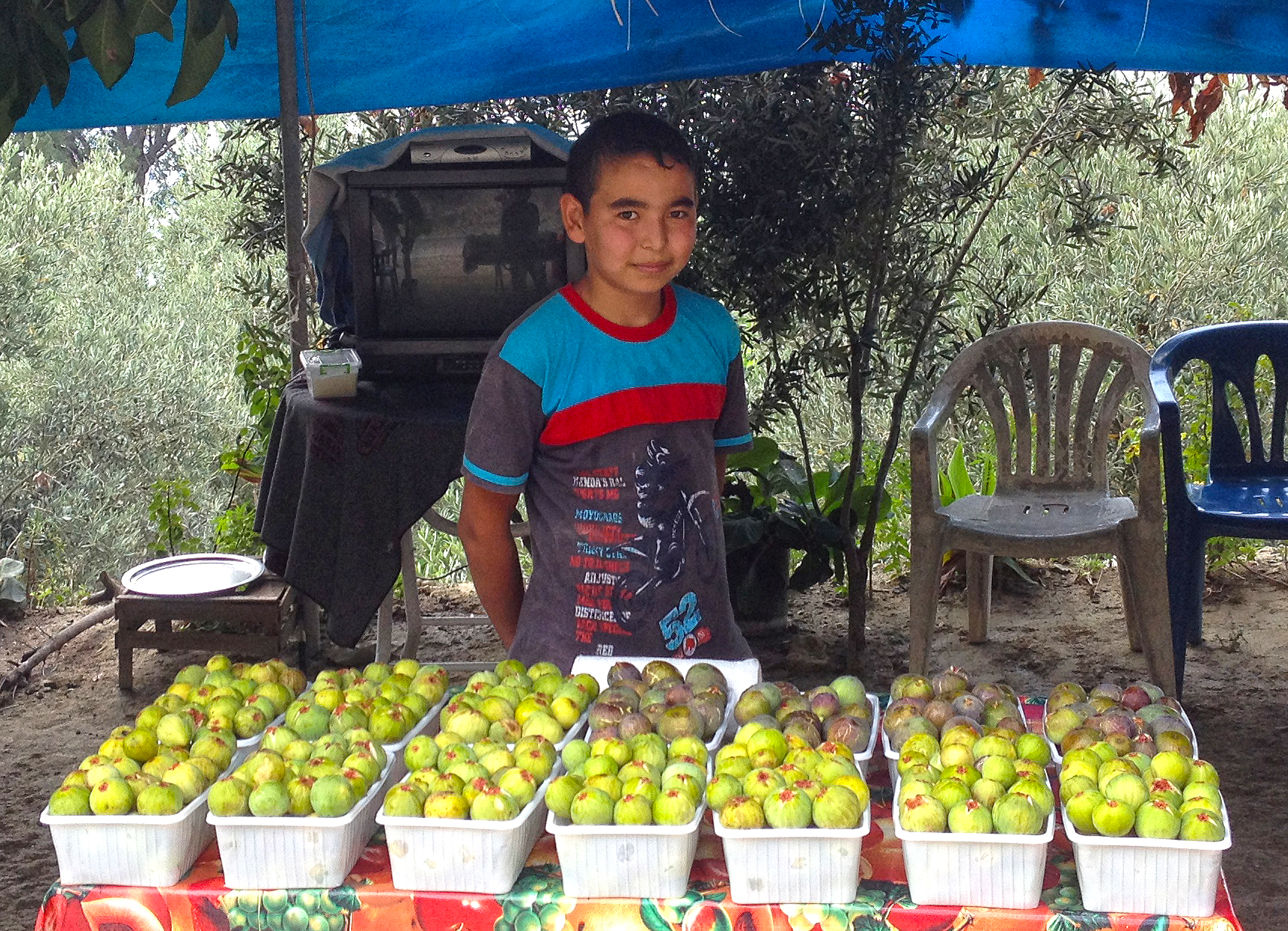 Umutcan, a roadside seller advertising his table figs harvested in orchards in Karayakup Village, Mersin - Turkey.